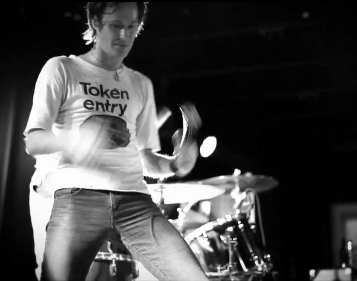 Dennis Lyxzén performing with AC4 at The Zoo in Brisbane Australia April 2011